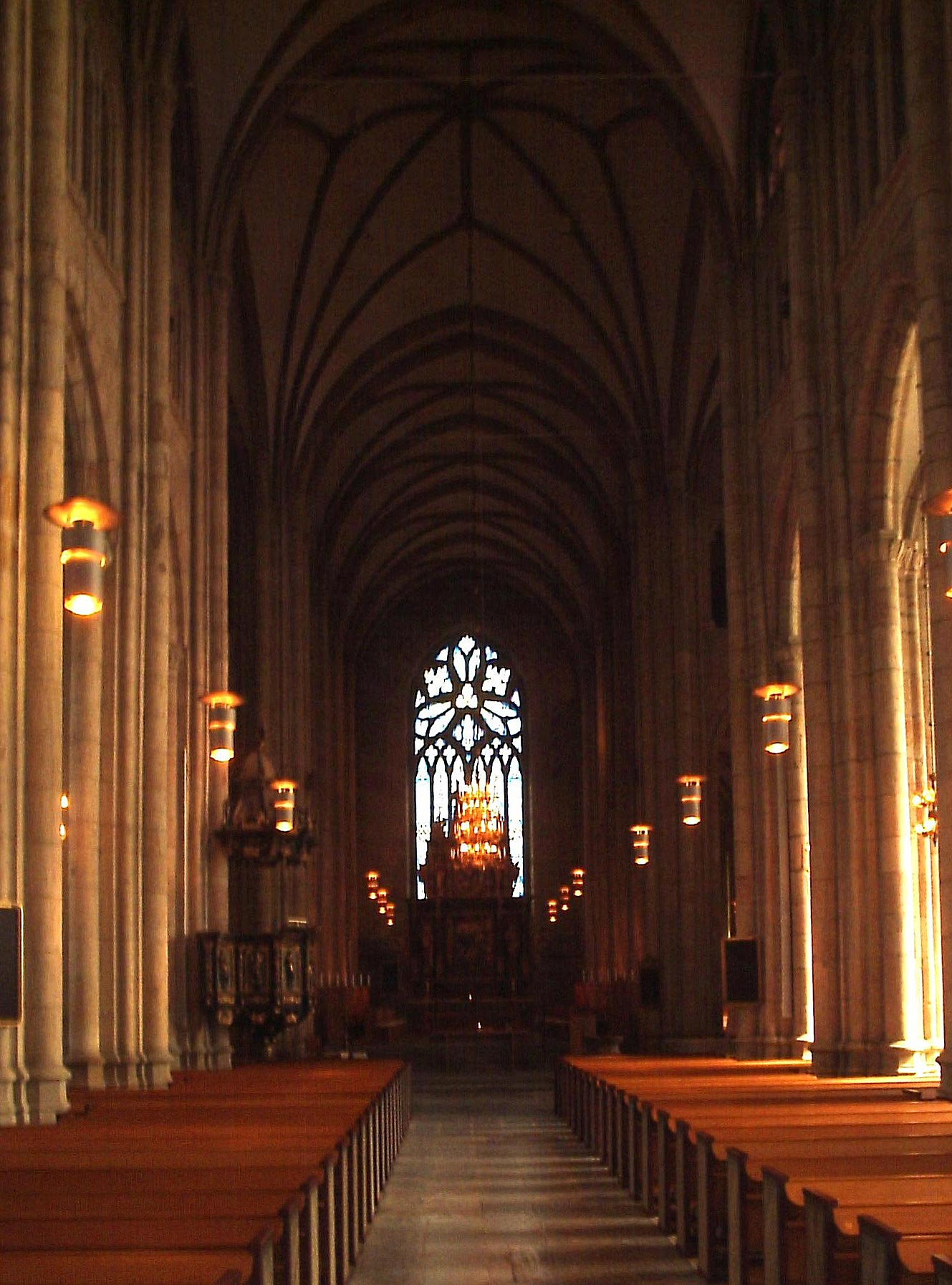 This is a modification of Harri Blomberg's Image:Skara domkyrka, den 20 aug 2006, bild 6.JPG. The image has been straightened, a dust particle to the right of the window has been removed, and contrast has been slightly increased. Licensing thus follows from the original.